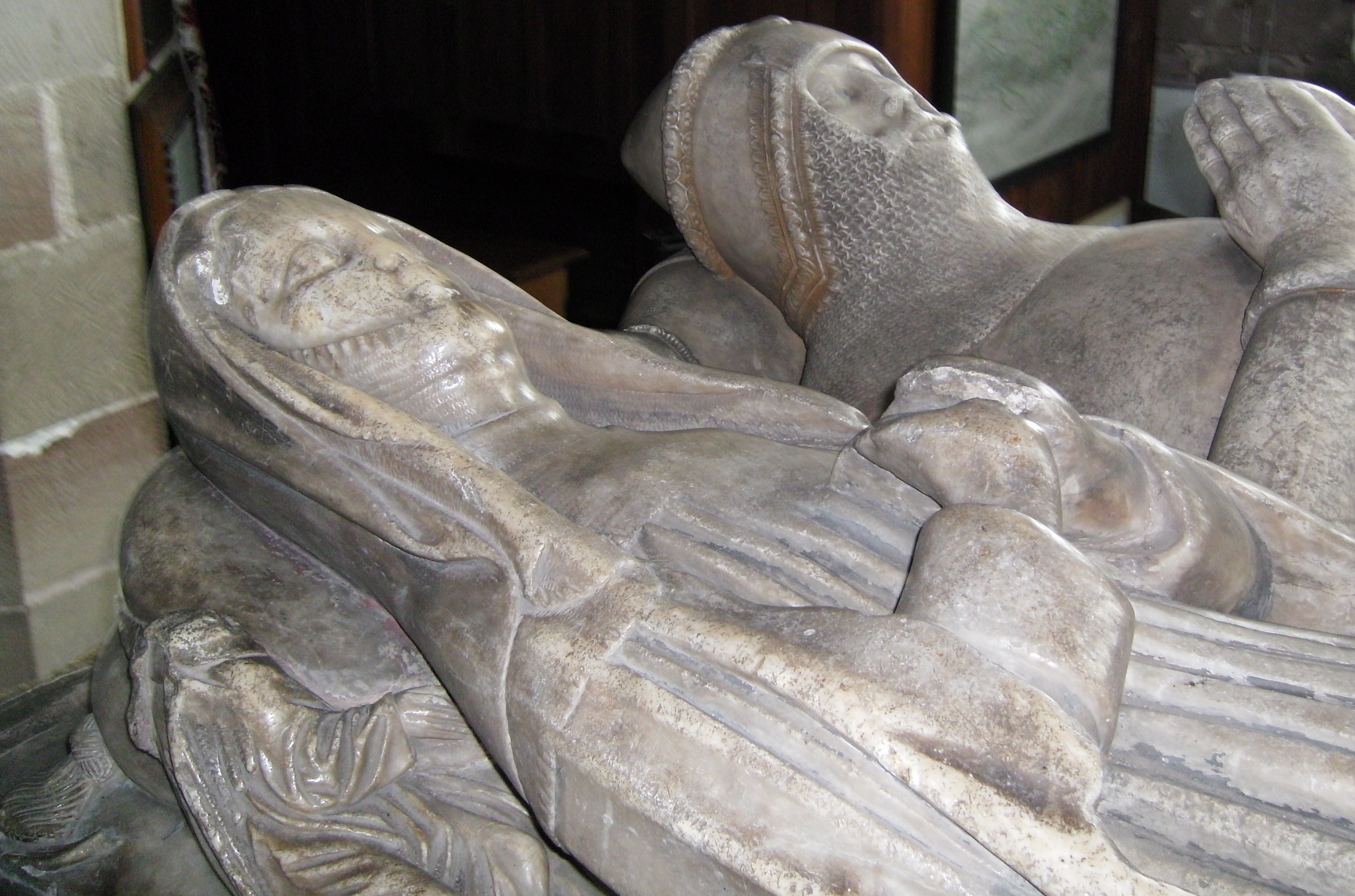 Isabel de Lingen (died 1446) and her third husband, Fulke de Pembrugge (died 1409). Isabel founded the college and chantry at Tong for her own and her husbands' souls. It became the shrine church of the Vernon family of Haddon Hall.